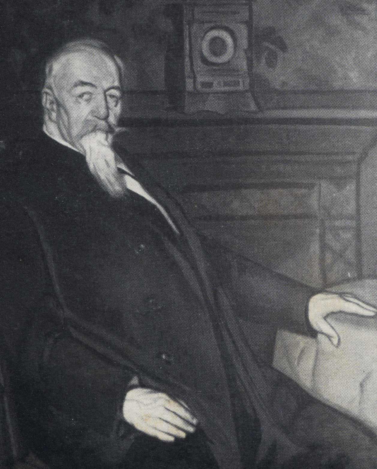 Nicolás Estévanez Murphy, Spanish politician (from Las Palmas de Gran Canaria, Canary Islands; Spain). * 1838 † 1914